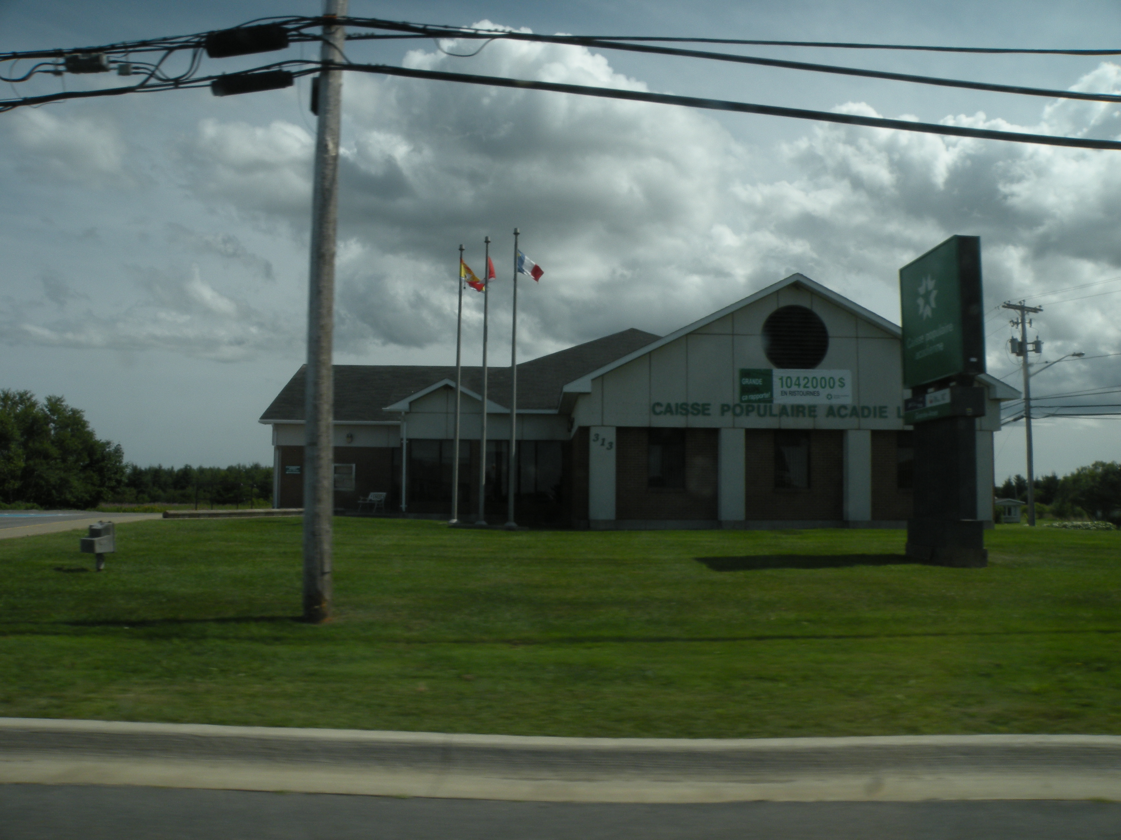 Credit union in Grande-Anse, New Brunswick, Canada.